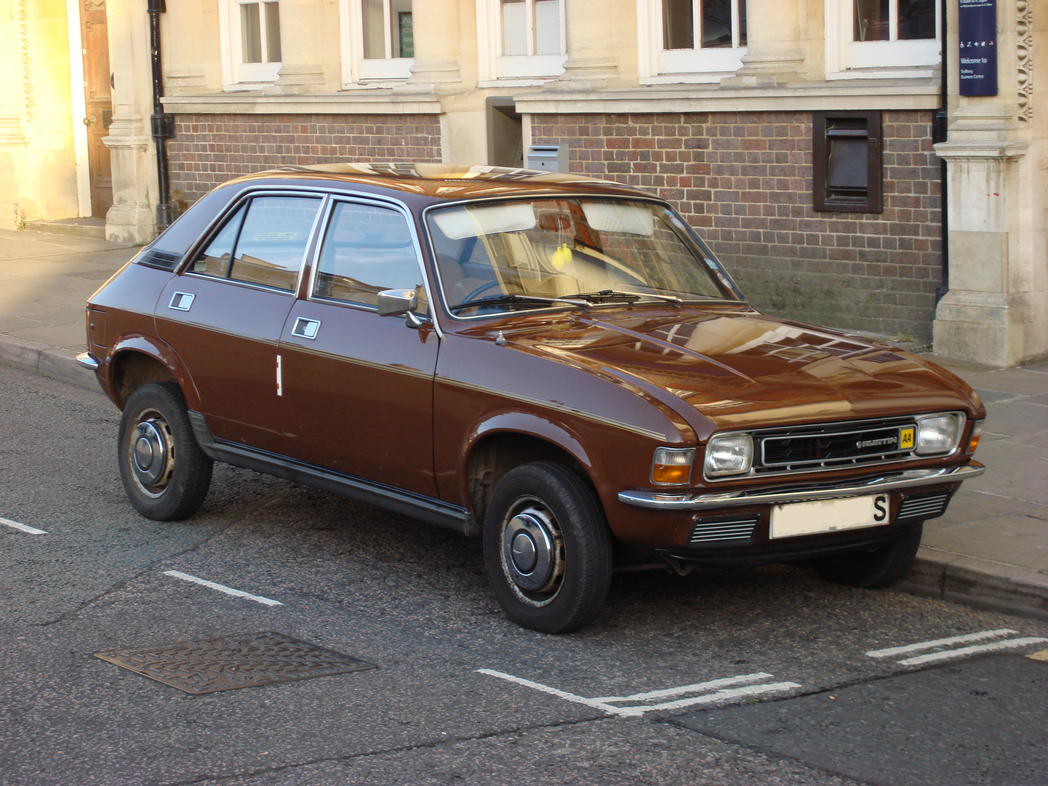 Austin Allegro in Sudbury, Suffolk